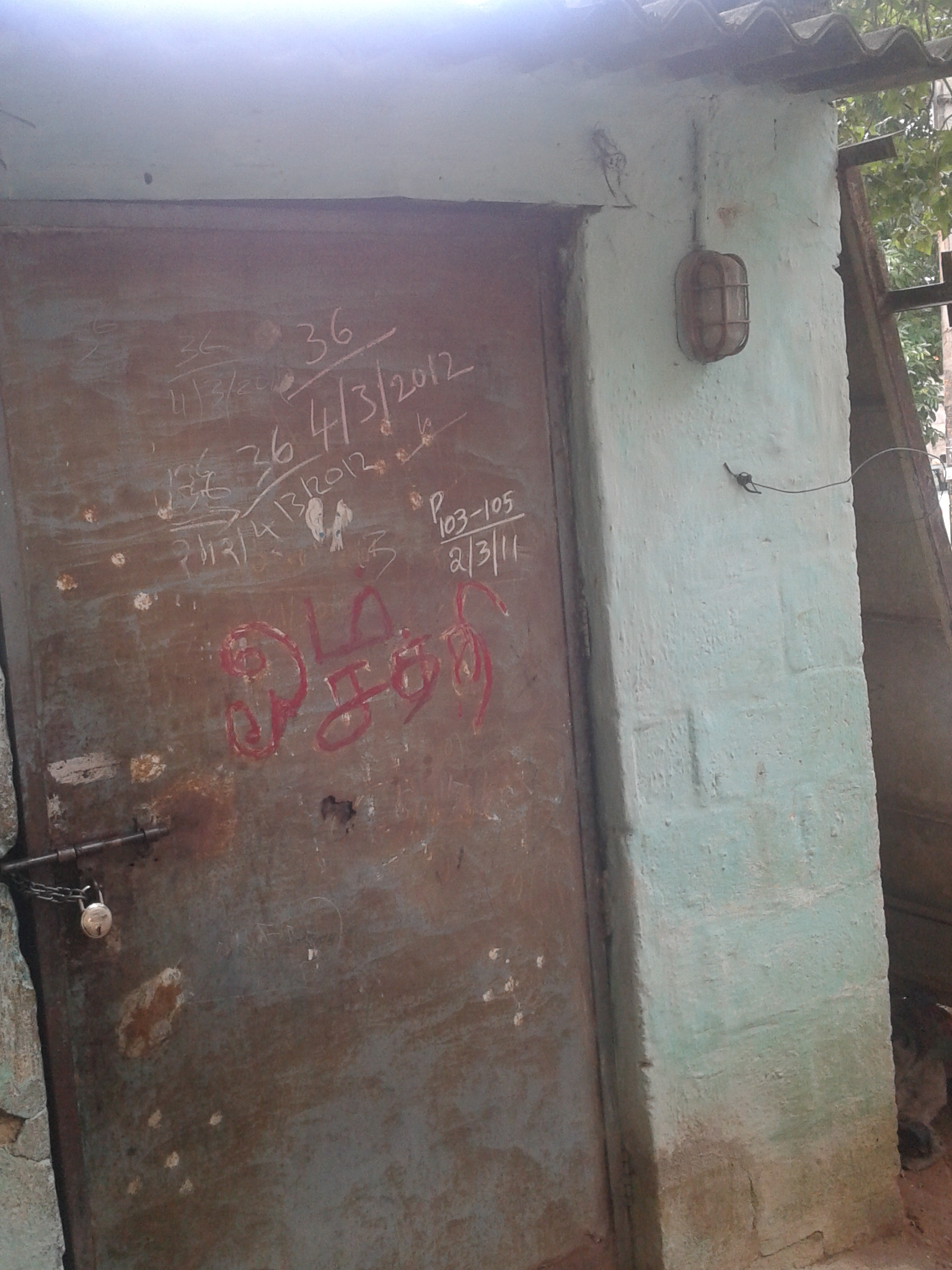 Folk language often shows a greater adherence to certain grammatical features because of consistence across a language as well as because of phonological or structural imperatives. The effect of linguistic consistence will be greater in the case of monoliterates.